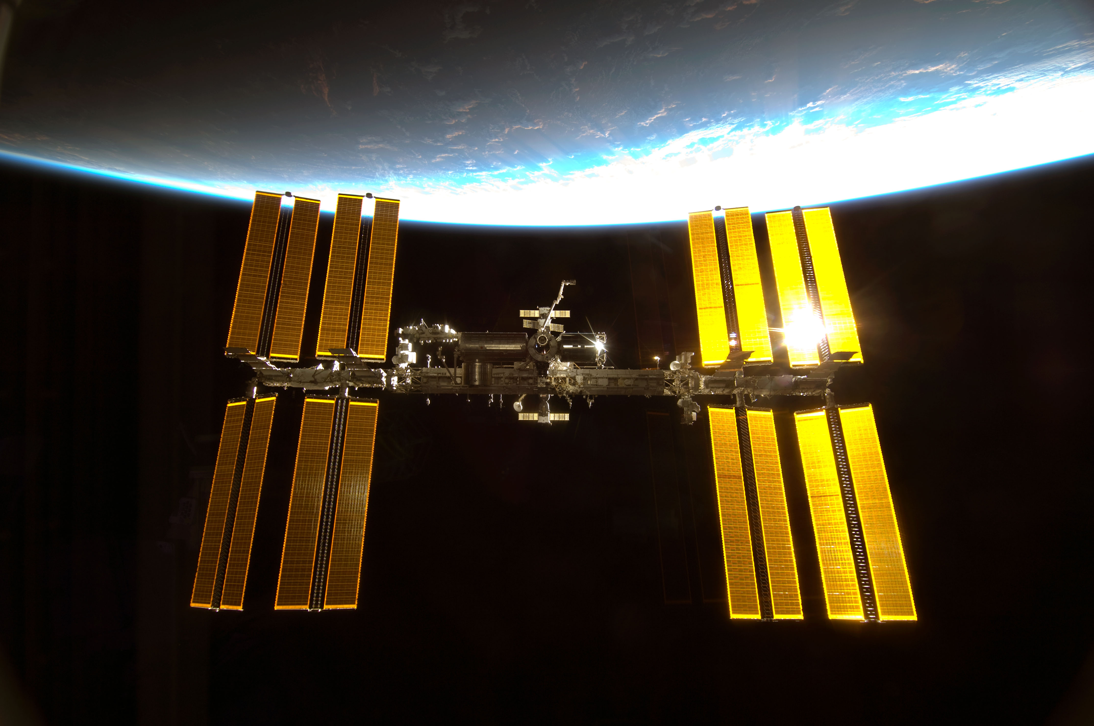 Backdropped by Earth's horizon and the blackness of space, the International Space Station is featured in this image photographed by an STS-130 crew member as space shuttle Endeavour and the station approach each other during rendezvous and docking activities. Docking occurred at 11:06 p.m. (CST) on Feb. 9, 2010, delivering the Tranquility node and its Cupola.